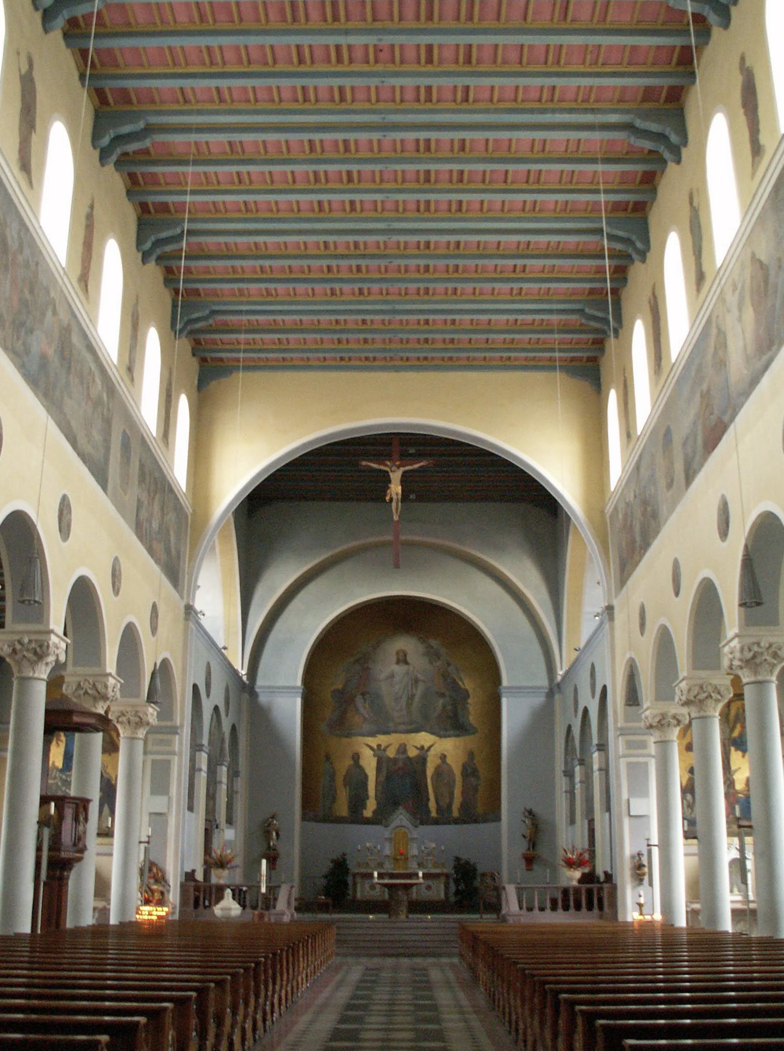 Pfarrkirche St. Jakob in Friedberg innen